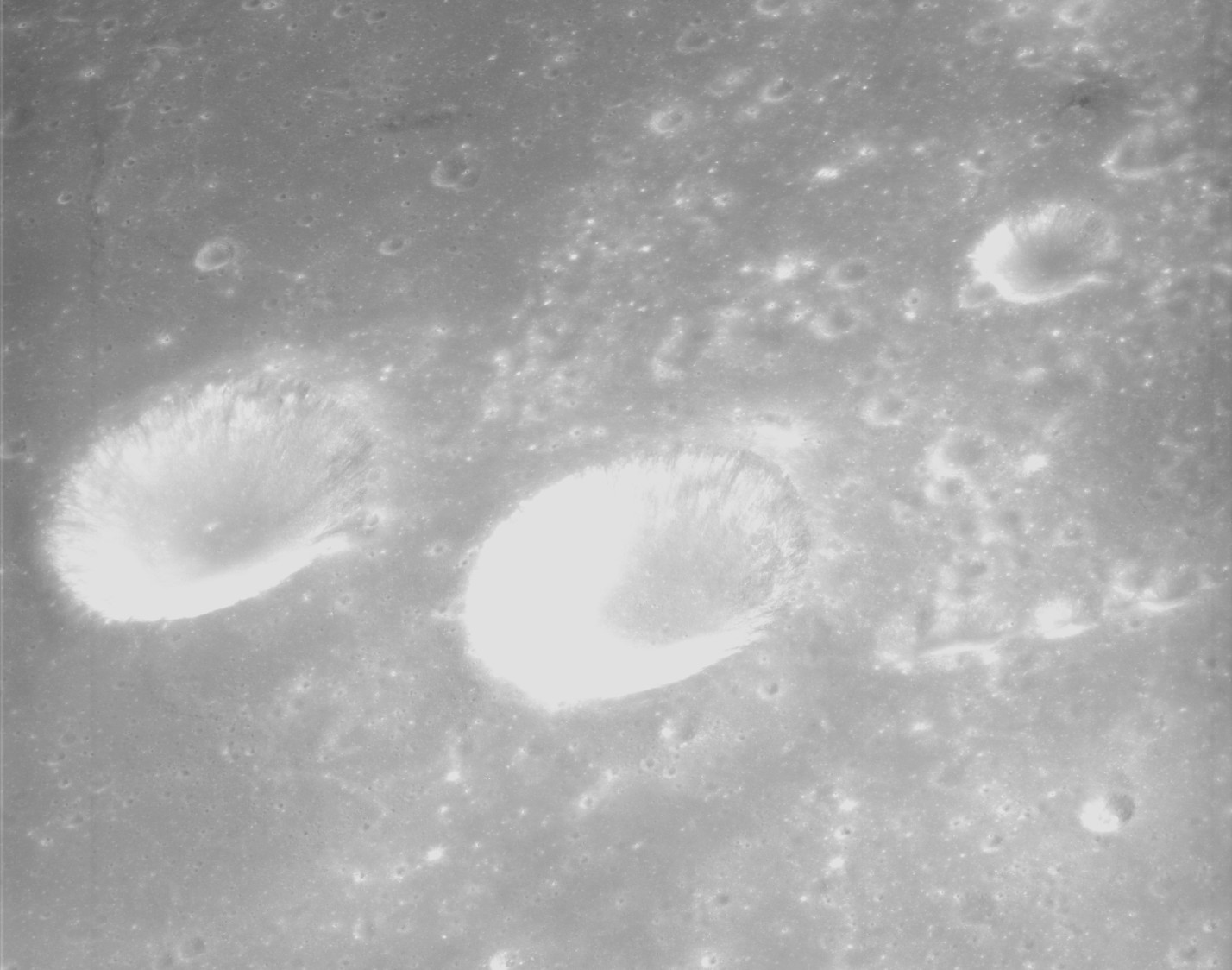 Oblique view of Feuillée (left) and Beer (center) craters, facing approximately north, on the moon.